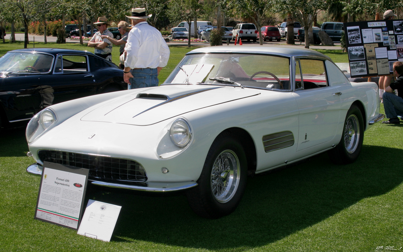 Palm Springs Desert Classic Concours d'Elegance, March 01, 2009